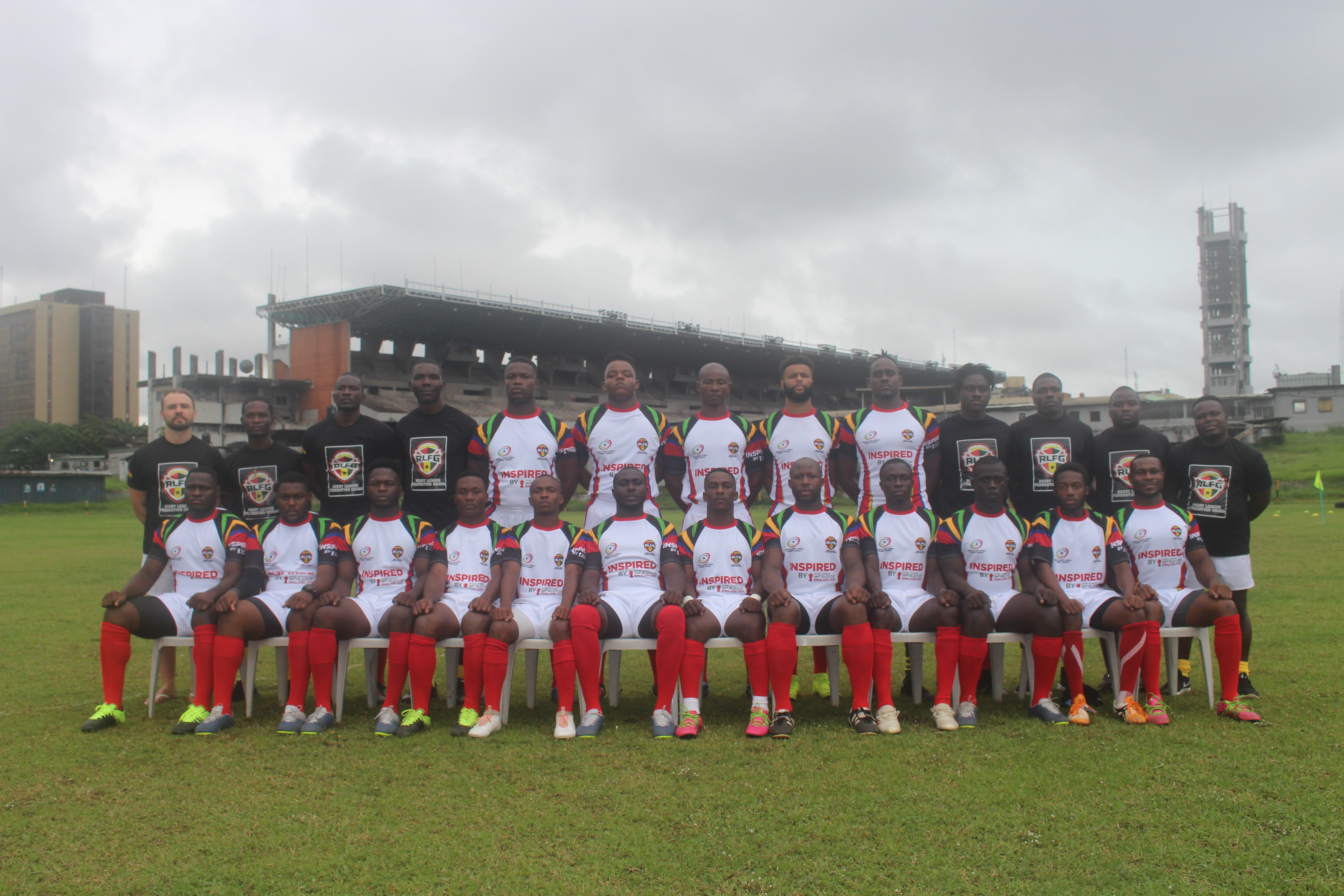 Ghana Rugby League National Team 2019